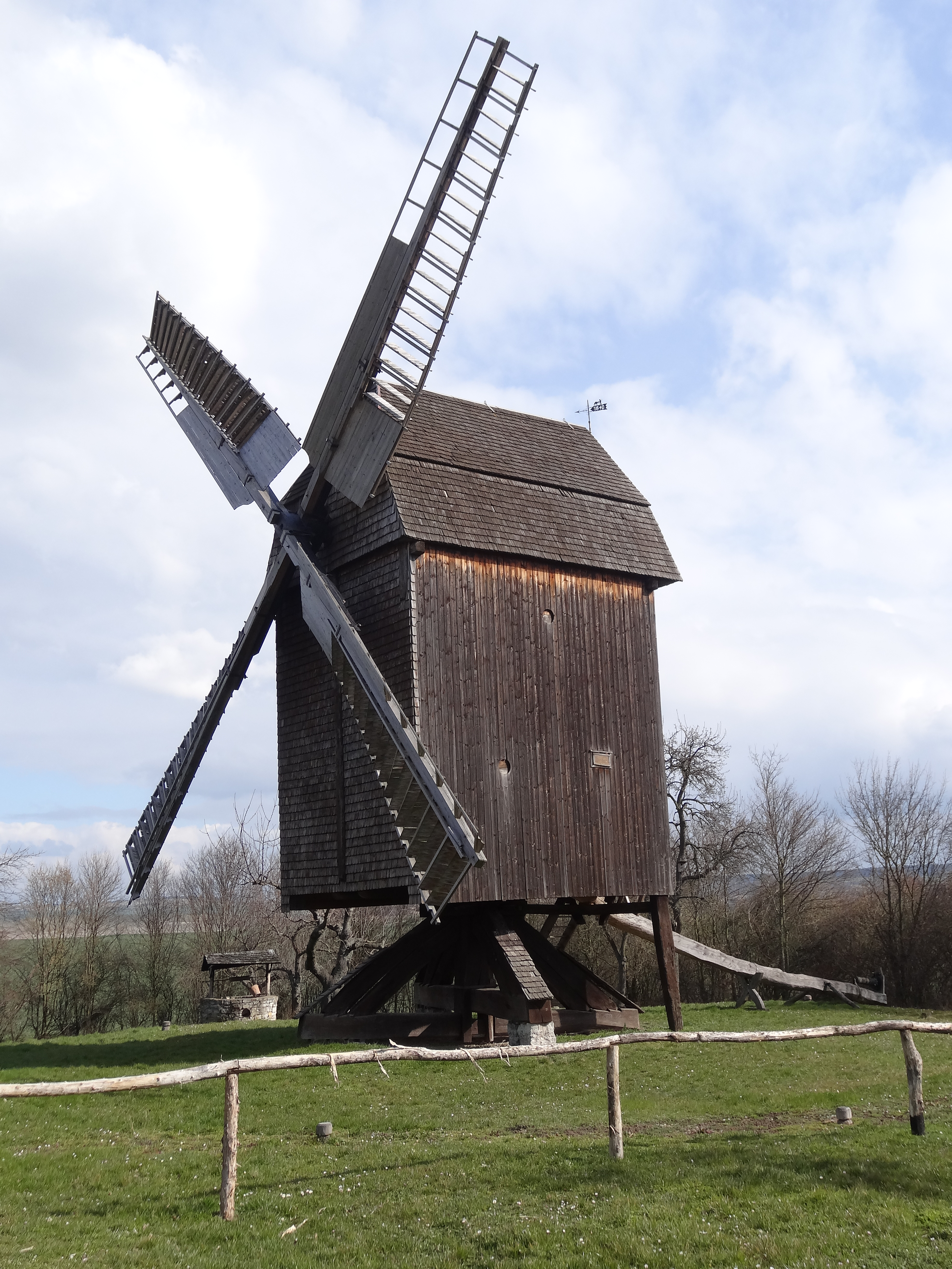 Windmill in Schillingstedt, Thuringia, Germany